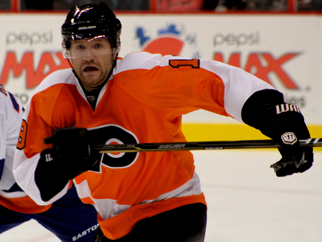 Philadelphia Flyers forward Scott Hartnell during a game against the New York Islanders on October 30, 2010.